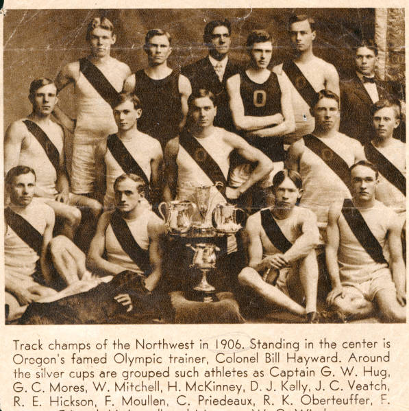 Track champs of the Northwest in 1906. Standing in the center is Oregon's famed Olympic trainer, Colonel Bill Hayward. Around the silver cups are grouped such athletes as Captain G. W. Hug, G. C. Mores, W. Mitchell, Henry M. McKinney, D. J. Kelly, J. C. Veatch, R. E. Hickson, F. Moullen, C. Prideaux, R. K. Oberteuffer, F. Friessel, H. Lowell and manager W. C. Winslow. This is a photograph of the 1906 University of Oregon track and field team. Head coach Bill Hayward is in the top row, in the suit. The athletes are gathered around the trophy for the northwest championship.